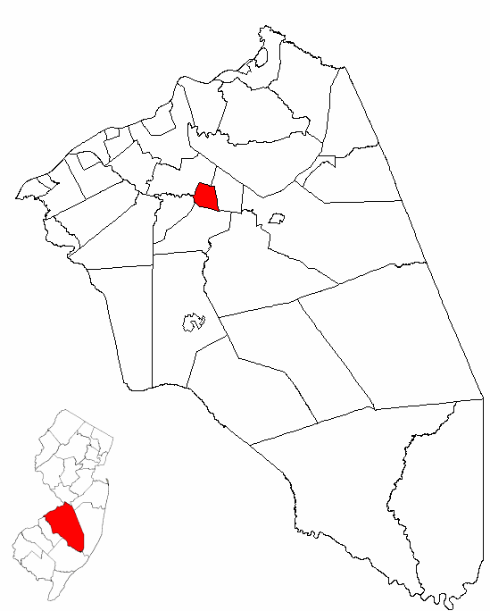 Map of Burlington County highlighting Mount Holly Township